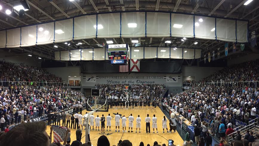 2014–15 North Florida Ospreys men's basketball team versus 2014–15 USC Upstate Spartans men's basketball team at the 2015 Atlantic Sun Men's Basketball Tournament championship.